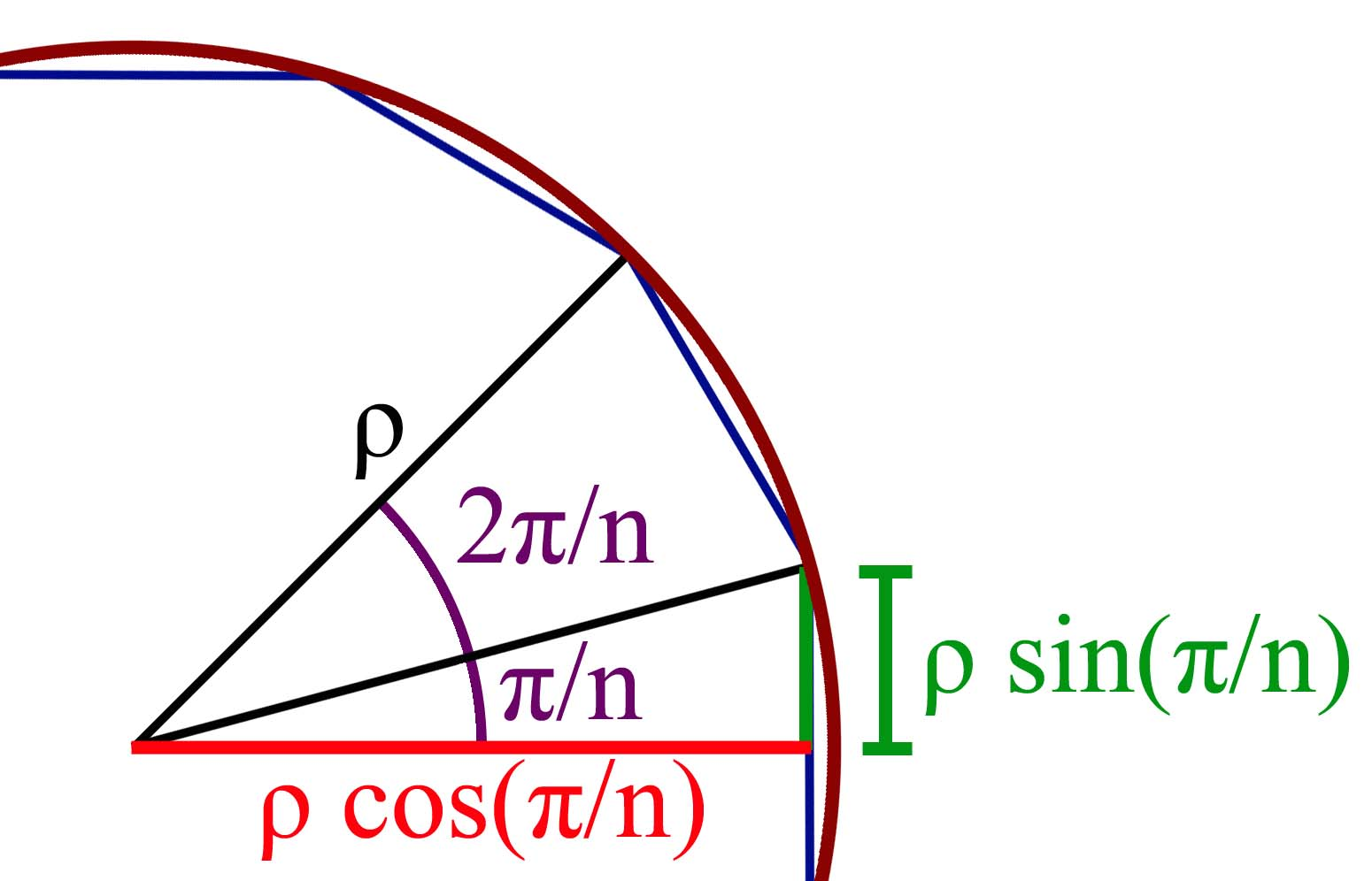 Illustration for the isoperimetric problem, in the general case (7).